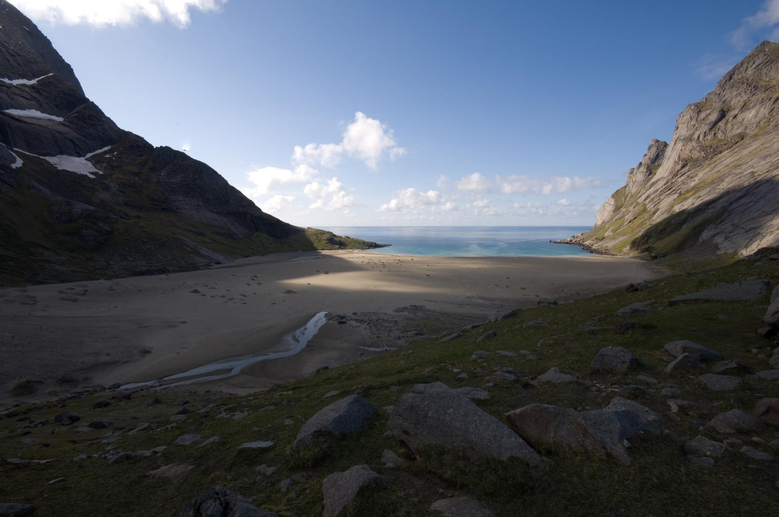 Bunes beach on the western, "outer" side of Moskenesøya island in Lofoten, Norway.